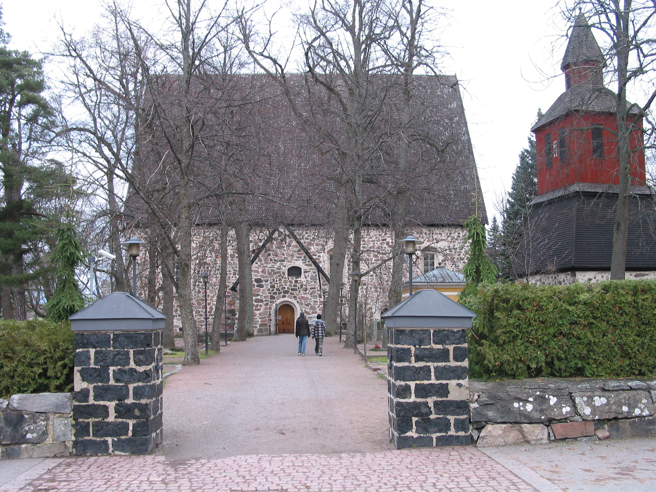 Church of St. Lawrence in Lohja, Finland